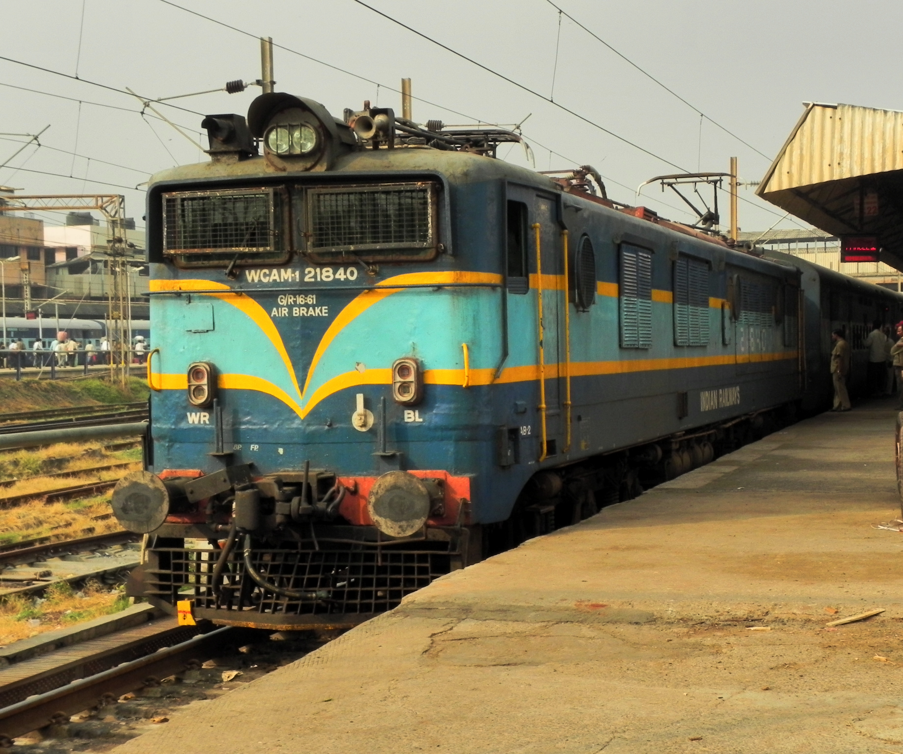 BL based WCAM-1 loco with Pune bound 11095 (ADI-PUNE) Ahimsa Express at Ahmedabad station